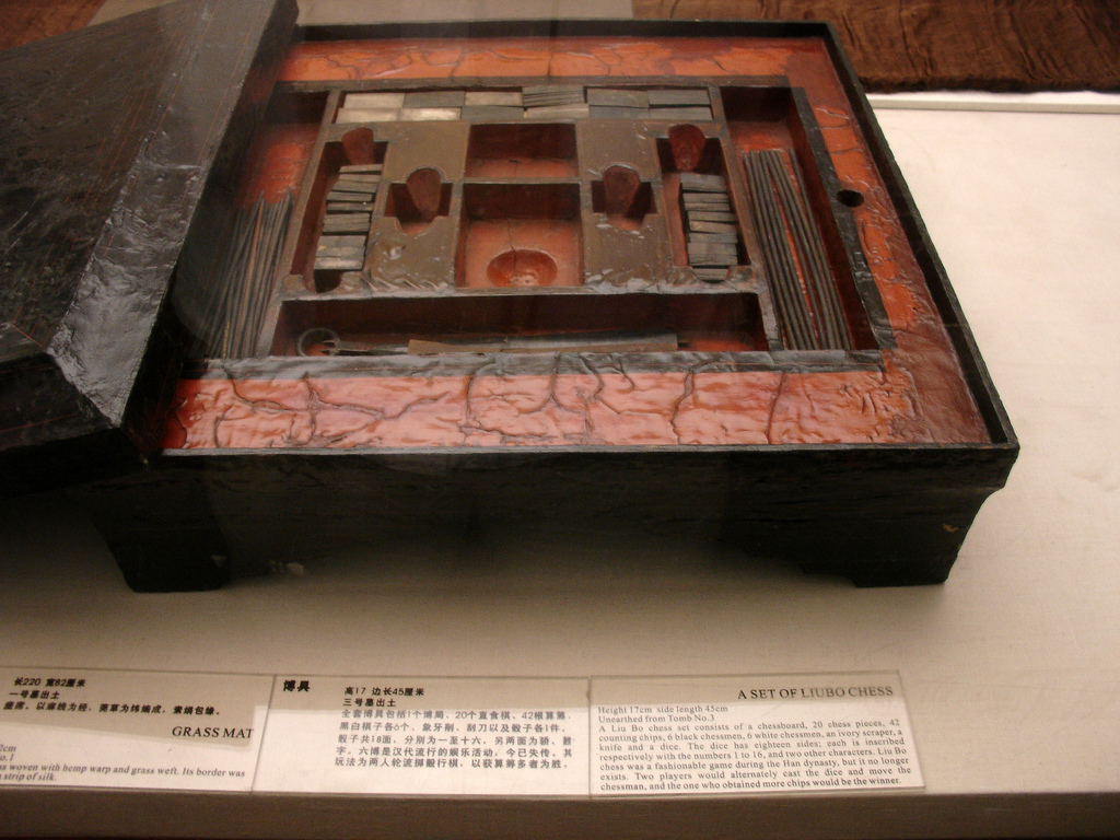 A lacquered Chinese liubo board game set excavated from Tomb No. 3 of Mawangdui, Changsha, Hunan province, China, dated to the 2nd century BC during the Western Han Dynasty. Height: 17 cm. Side length: 45 cm. This set includes a chessboard, 20 chess pieces, 42 counting chips, 6 black chessmen, 6 white chessmen, an ivory scraper, a knife, and eighteen-sided dice (every side labeled with either a number of 1 through 16 or two unique characters).